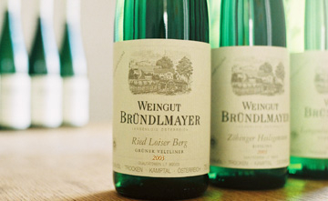 weingut brundmayer